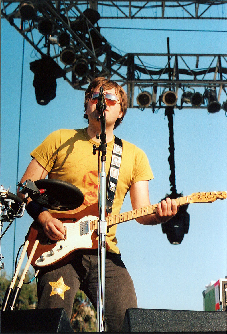 Ben Gibbard, lead singer of the American rock band Death Cab for Cutie, performing at Street Scene in San Diego, California on July 30, 2005.